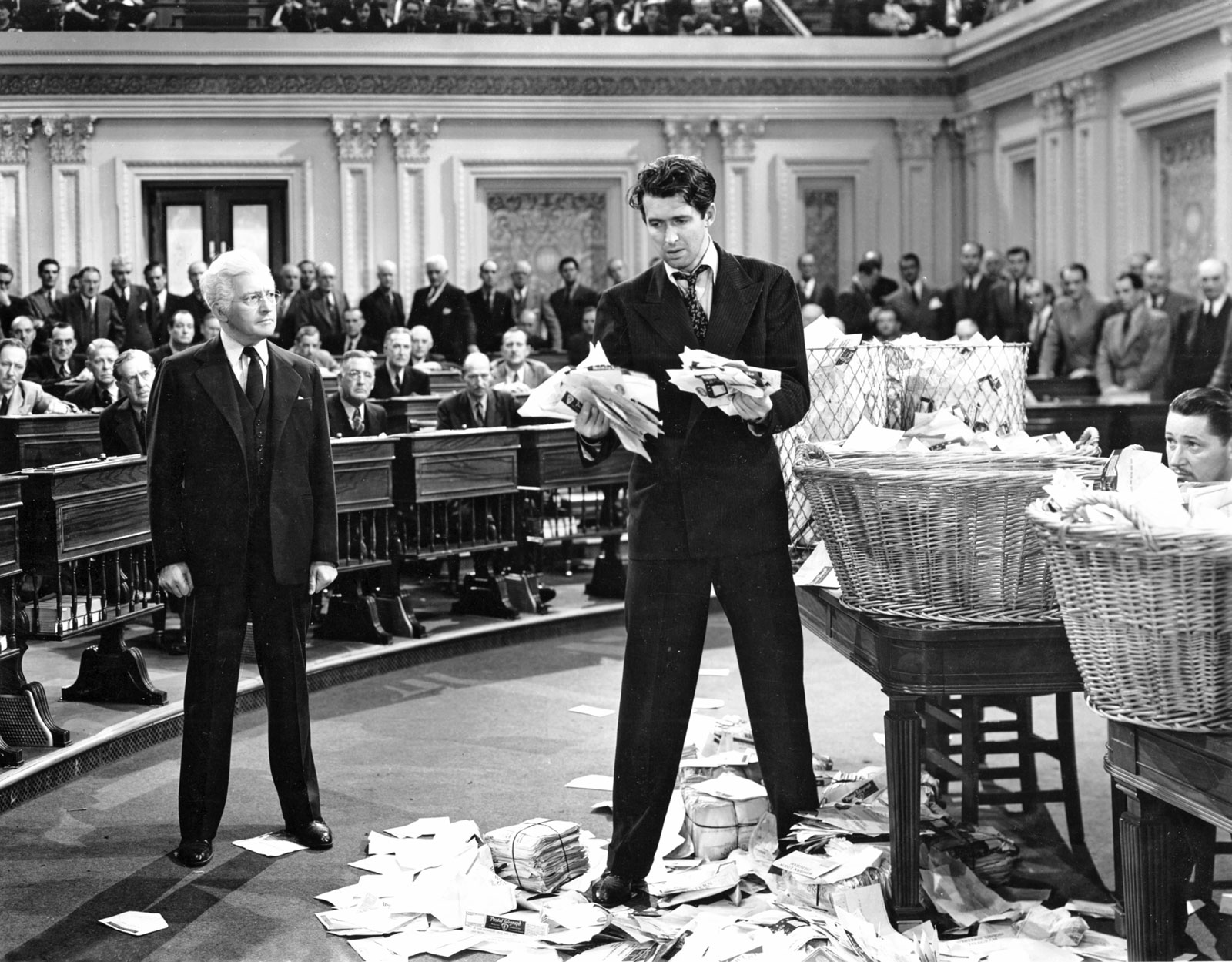 Promotional still from the 1939 film Mr. Smith Goes to Washington, published in National Board of Review Magazine